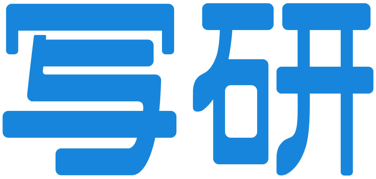 Digital re-creation of the Japanese logo of type foundry and photypesetting company Shaken. This logo is also the base for their font, FanLan.